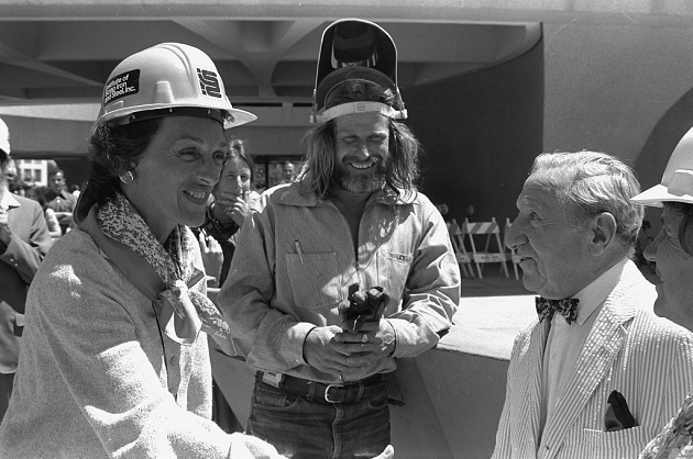 Joan Mondale and sculptor Mark di Suvero greet Joseph Hirshhorn out side the Hirshhorn Museum and Sculpture Garden, 11 July 1978. Mark di Suvero was constructing a sculpture in the plaza on the museum out of scrap iron.